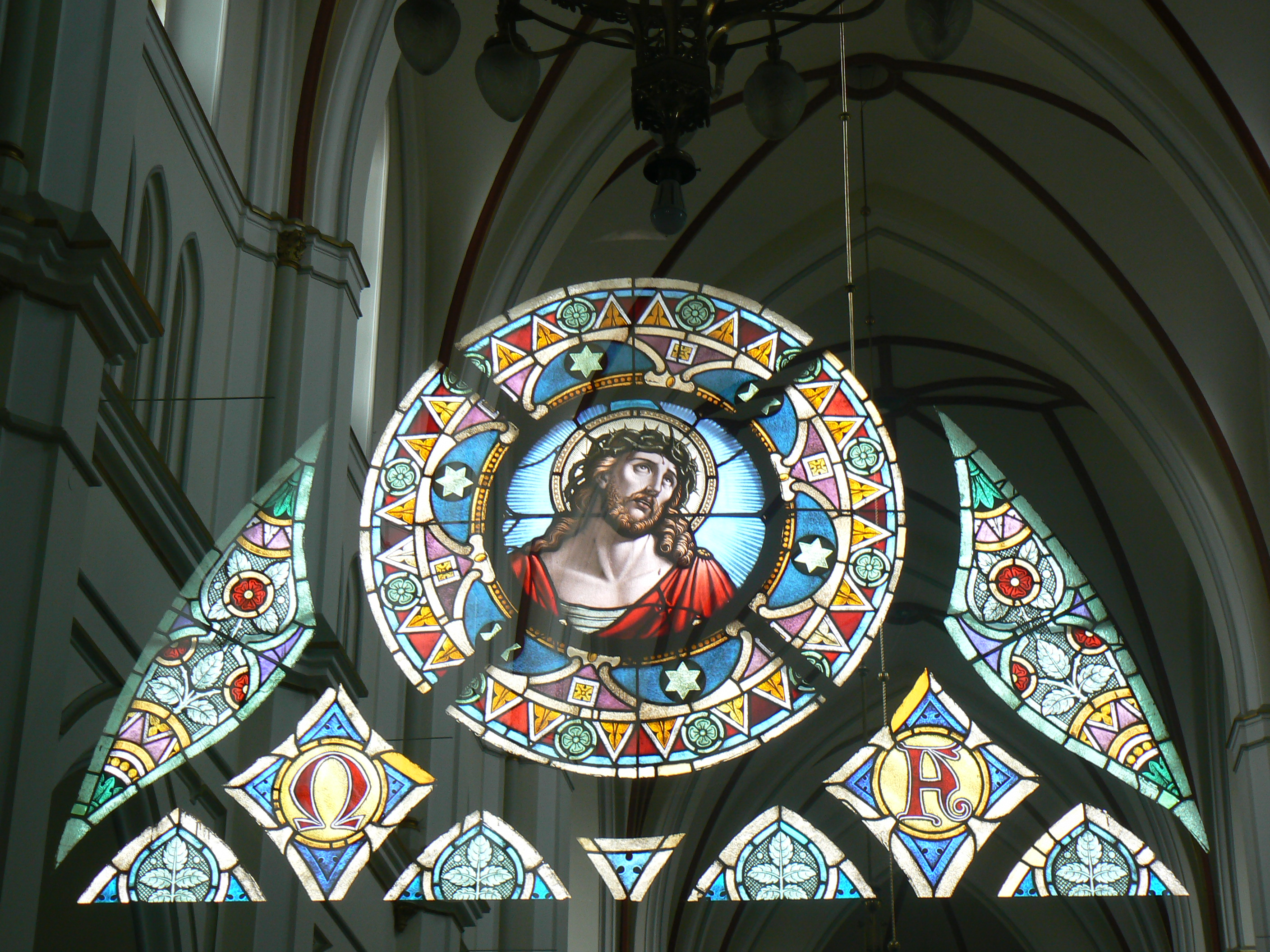 Reflection of a stained glass window located above the main entrance to the nave of Sain Mary Church in Pabianice (photo took from the narthex).